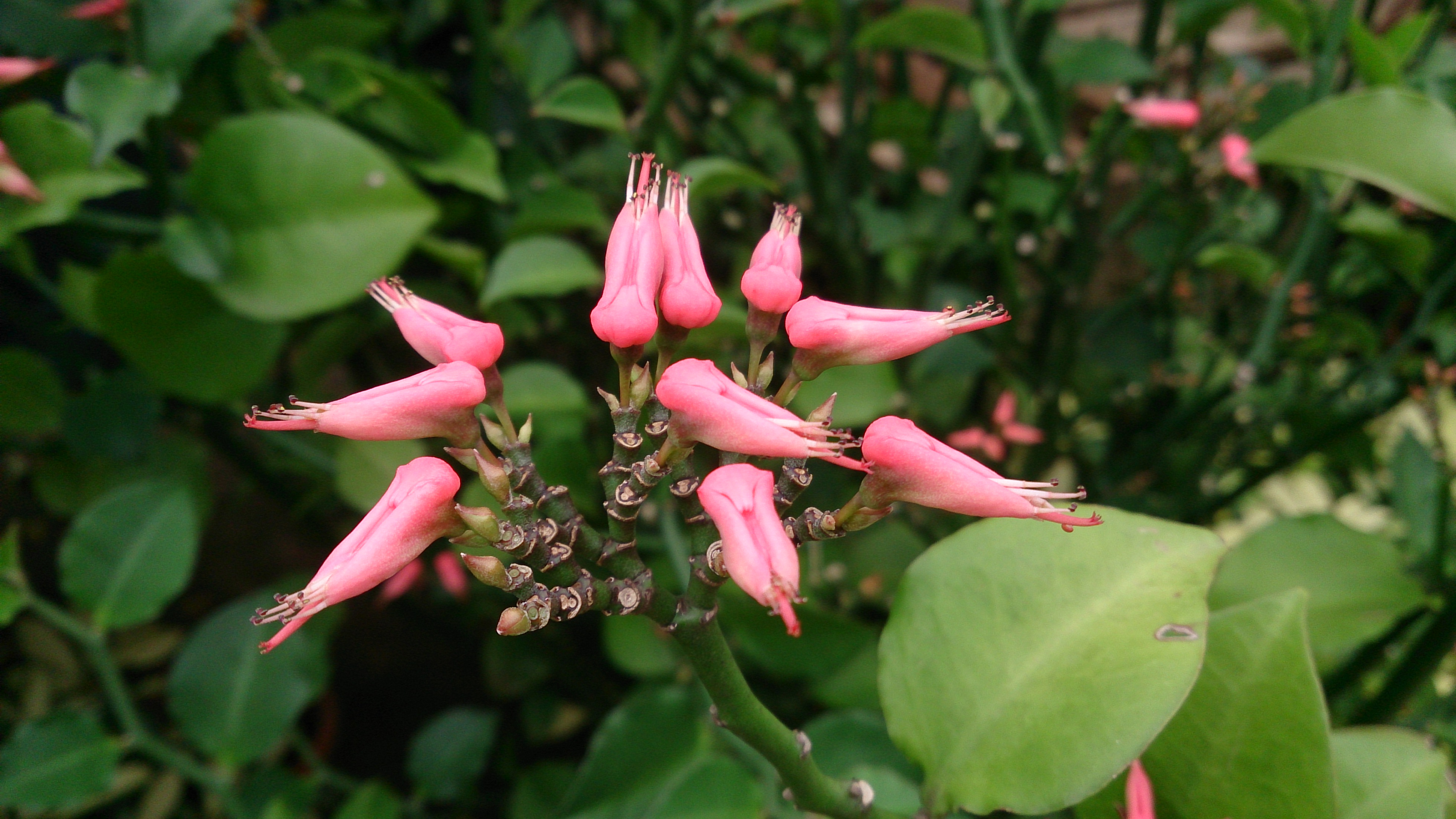 Pedilanthus tithymaloides OR Euphorbia tithymaloides. Common names: Redbird Cactus, Devil's backbone, Slipper Plant, Christmas candle, Japanese Poinsettia, Slipper Spurge